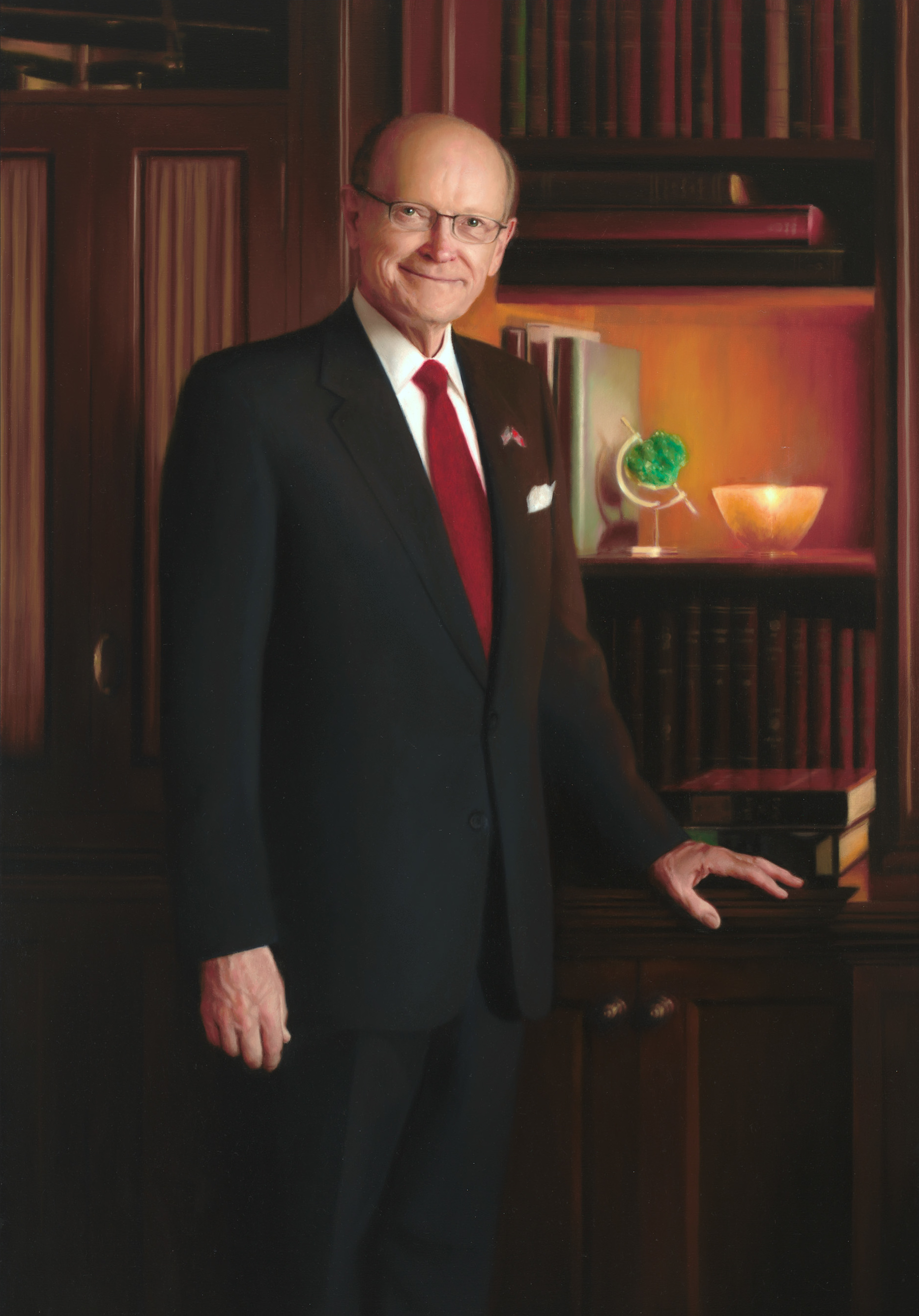 Donald E Petersen portrait painting by Michele Rushworth